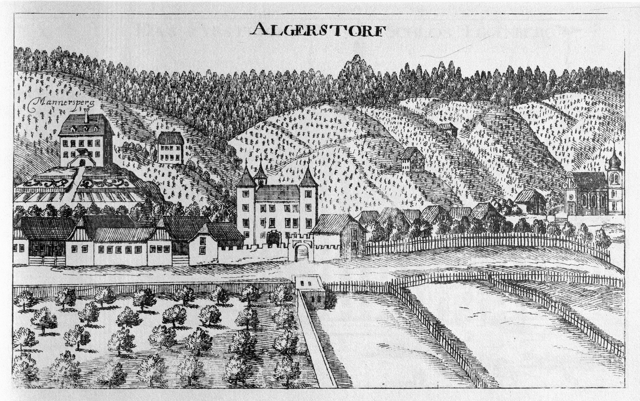 Schloss Algersdorf, Graz, Austria